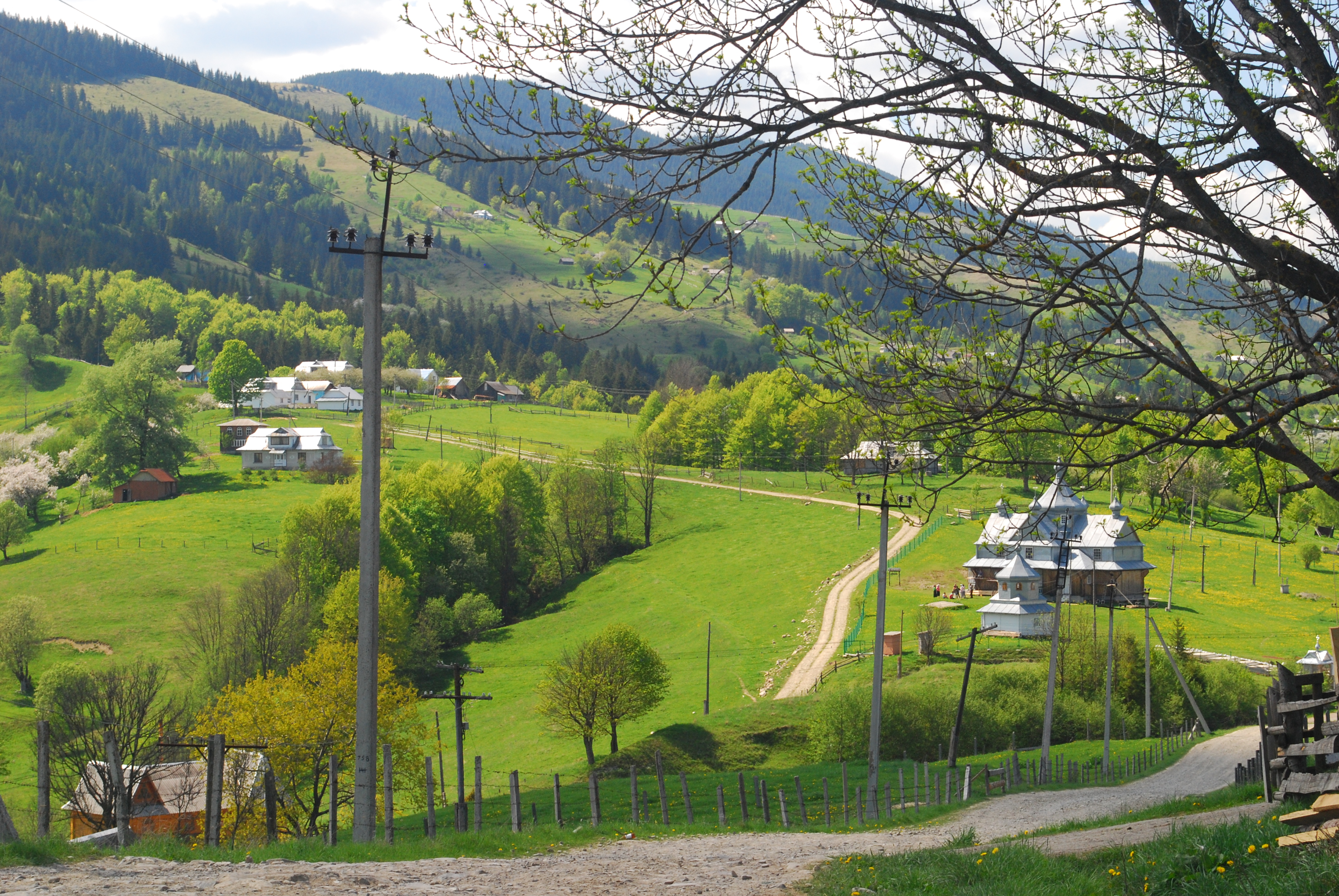 Bukovec ridge and church in Bukovec village